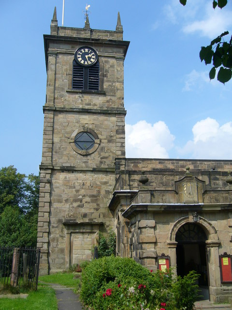 Church Tower. Church of Saint Thomas Becket,built AD 1225. To the left of the tower is a stone column with a sun-dial on top,protected by metal railings, which is some 300 years old. The sun-dial affixed to the church porch was showing 1pm, when the correct time was 2.30pm. Allowing for BST, it is still half an hour wrong! For close-up, see picture903882.